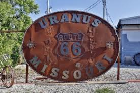 The Largest Belt Buckle in the World is located in Uranus, Missouri.